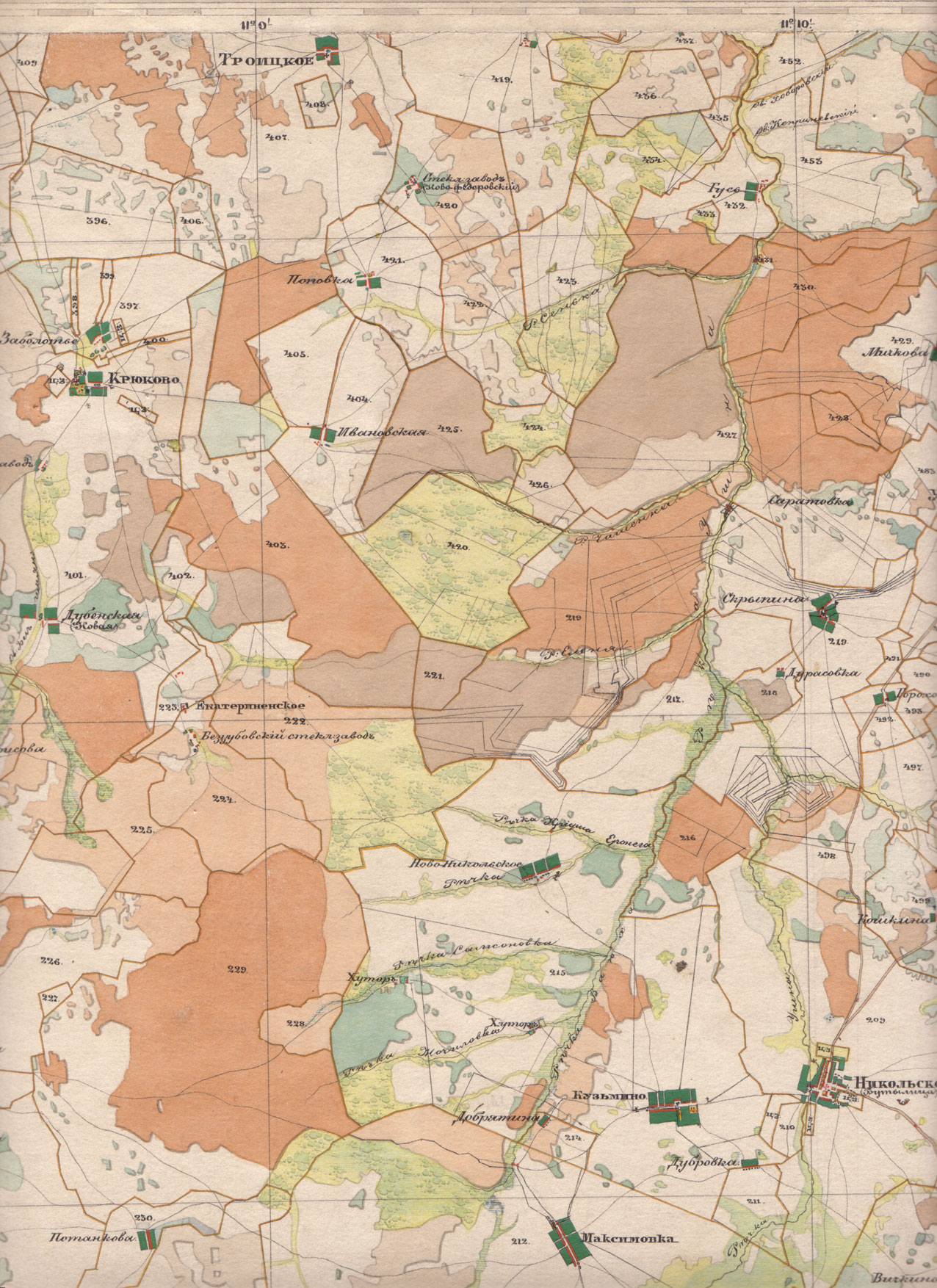 village of Dobryatina on a map of Vladimir Gubernia in 1865.